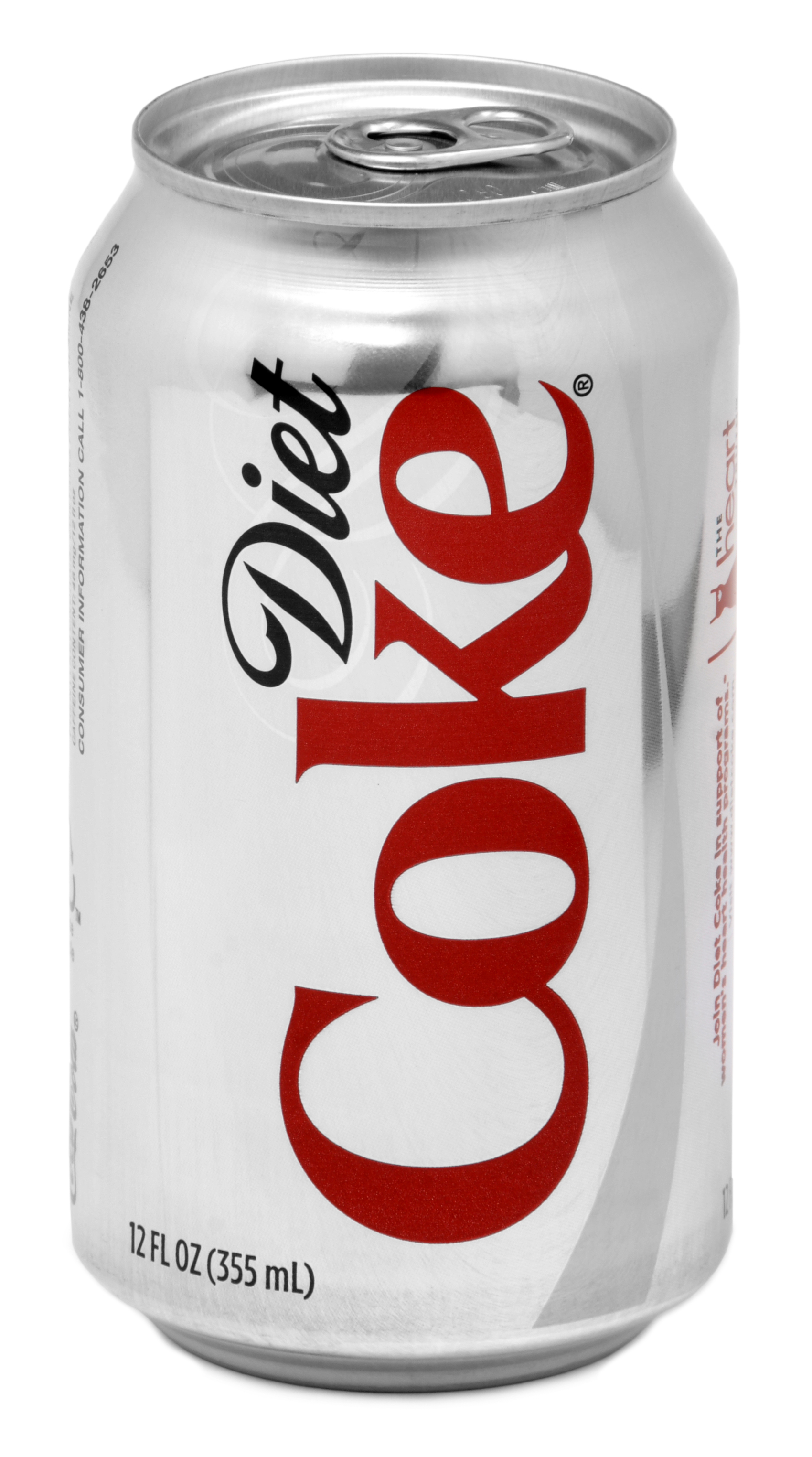 A can of Diet Coke, purchased during the summer of 2010.